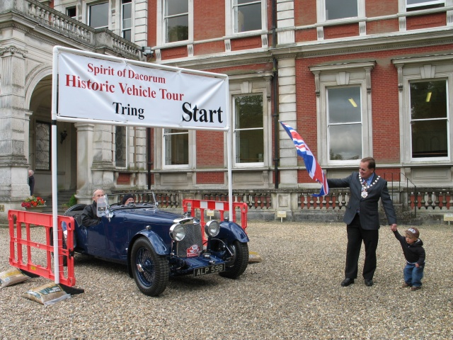 Classic Car Rally, Tring Park. The Official Starter was the Mayor of Tring, Councillor Mike James. See also . . . 1608850; 1608852; 1608854